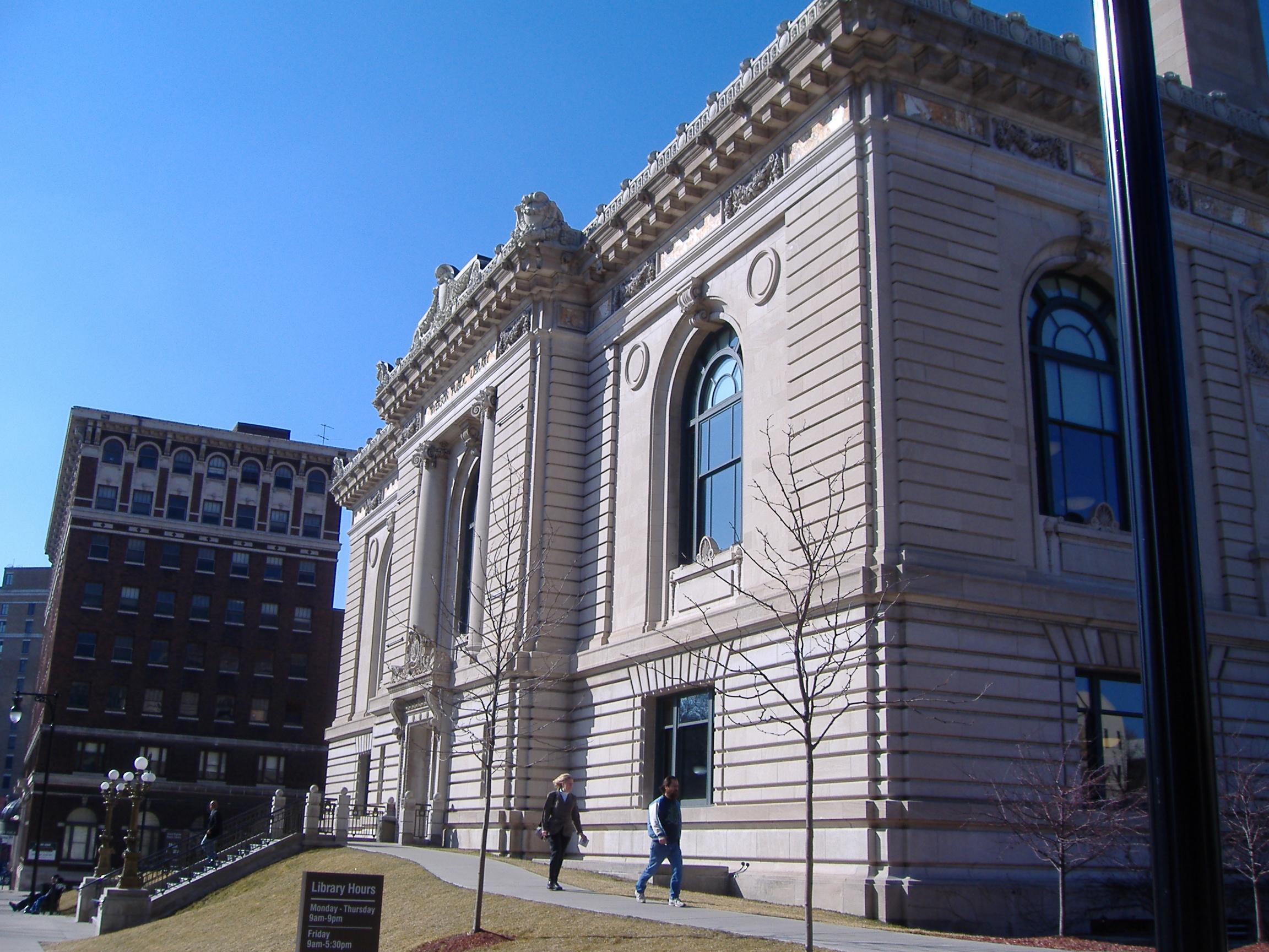 The Main Branch of the Grand Rapids Public Library